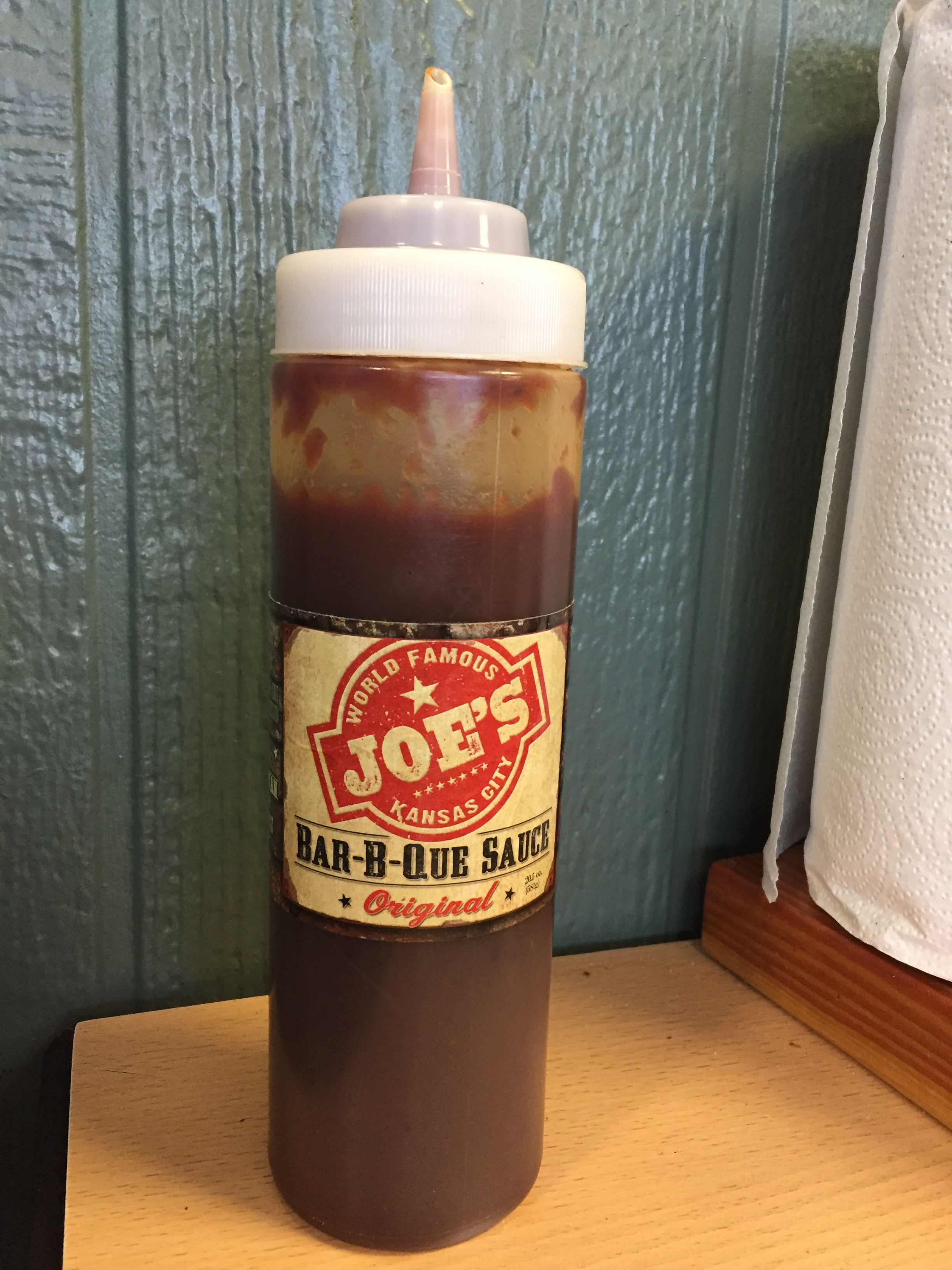 Joe’s Kansas City Bar-B-Que Sauce in Squeeze Bottle